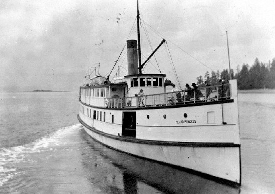 Island Princess, steamboat, backing away from a landing.